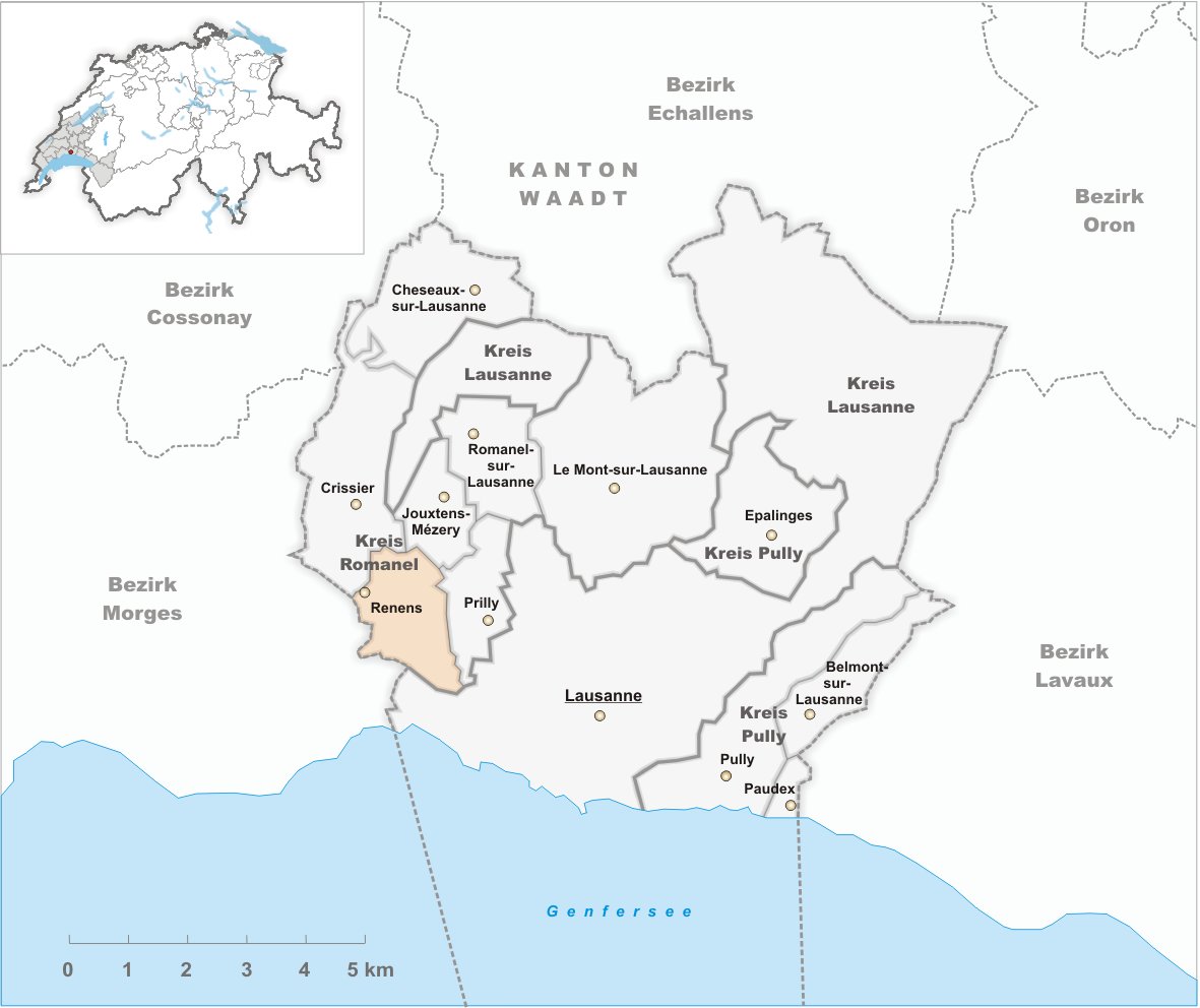 Municipality Renens